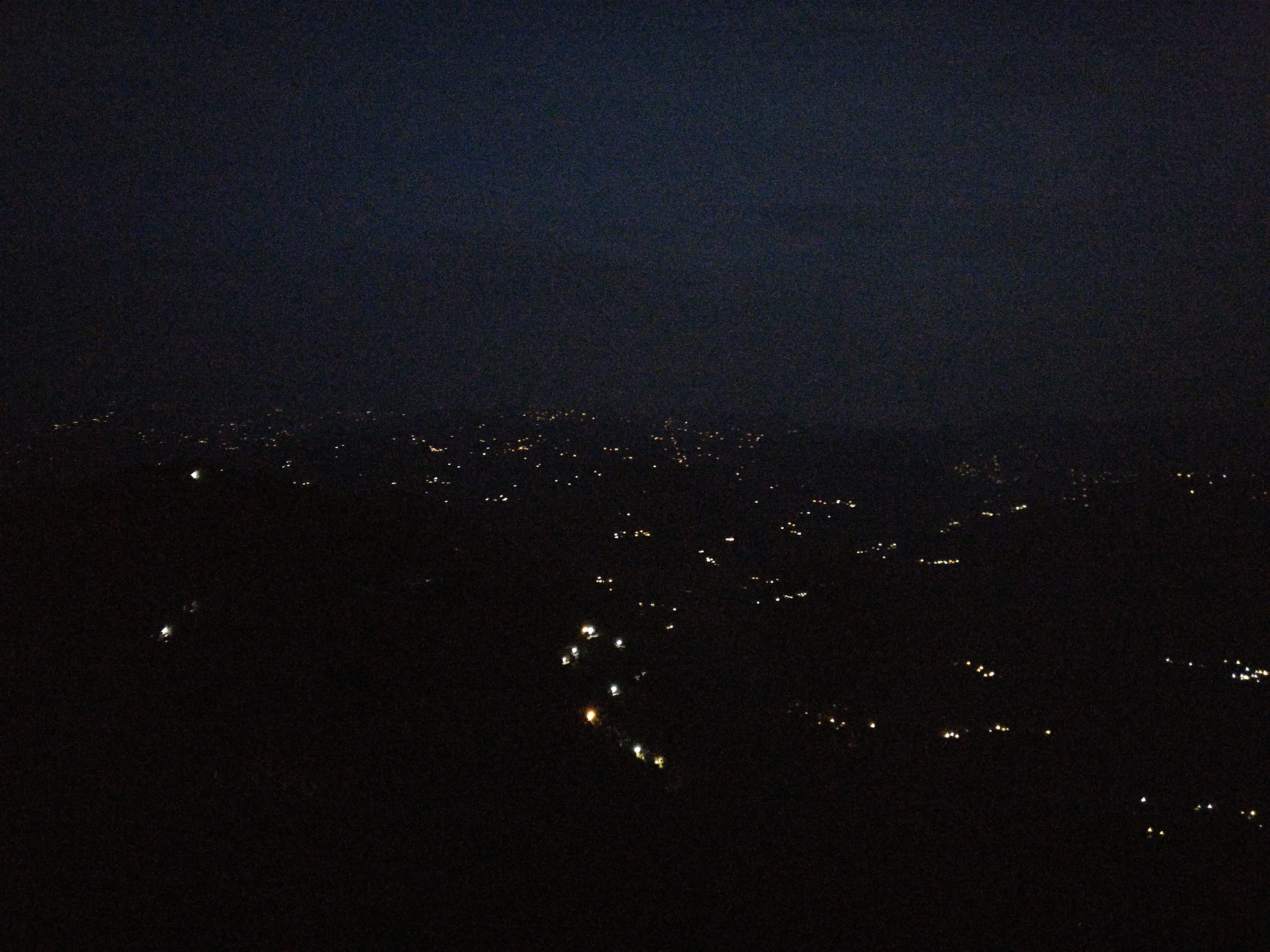 Night view of Valley from Bhargaon overlooking various town including Ramgarh & Mukteshwar